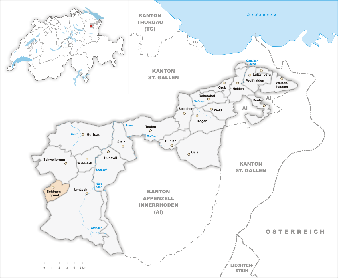 Municipality of Schönengrund